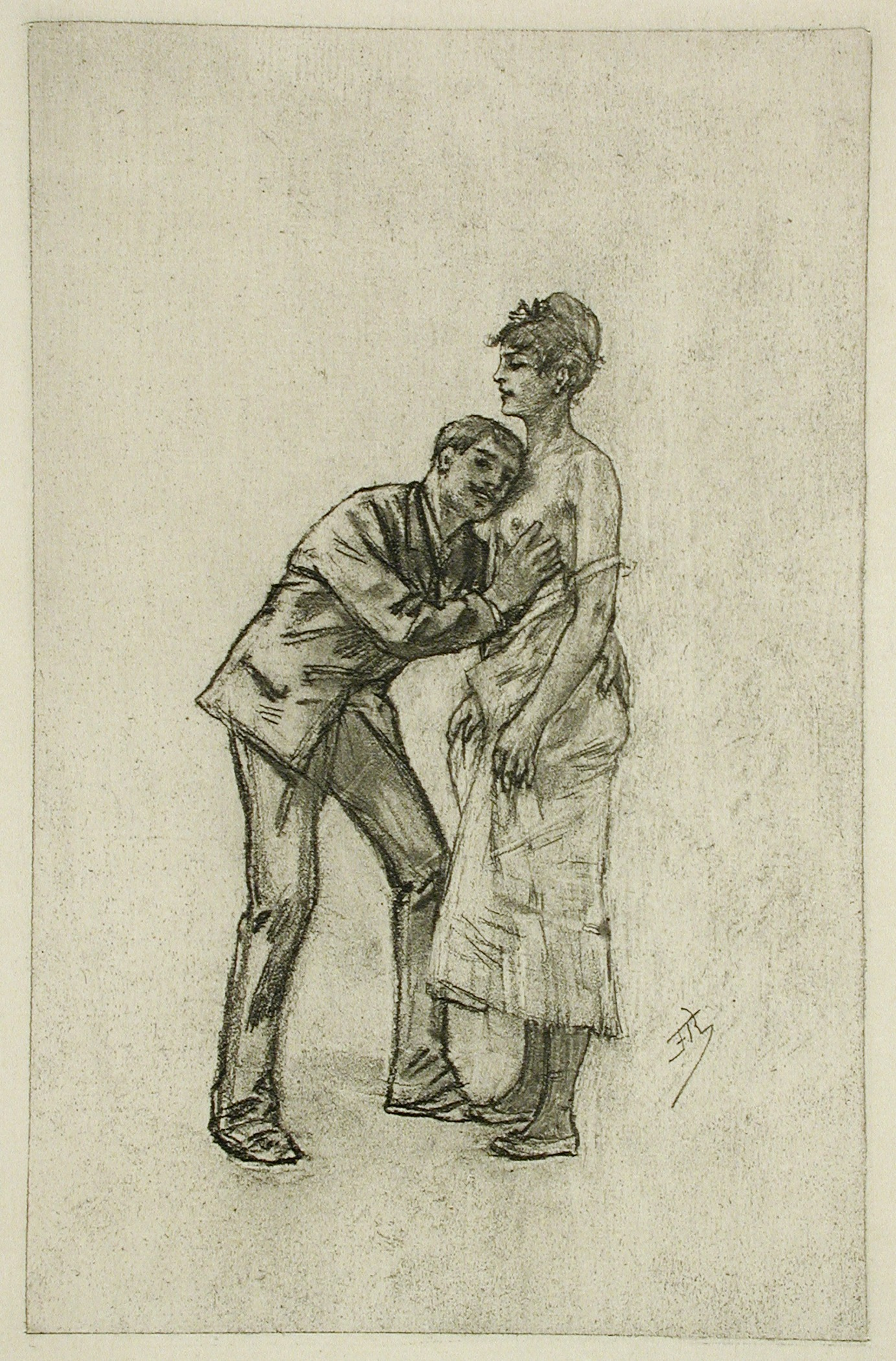 Belgium, 1893 Series: Les Sonnets du Docteur Prints Heliogravure Gift of Michael G. Wilson (M.81.313.67) Prints and Drawings